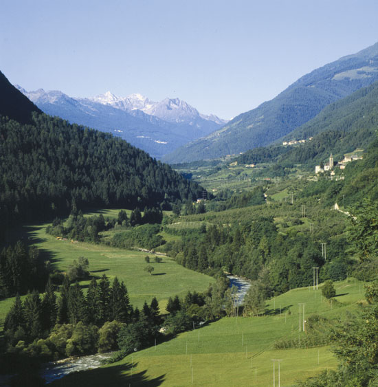 La valle vista dal comune di Cis, frazione Mostizzolo.